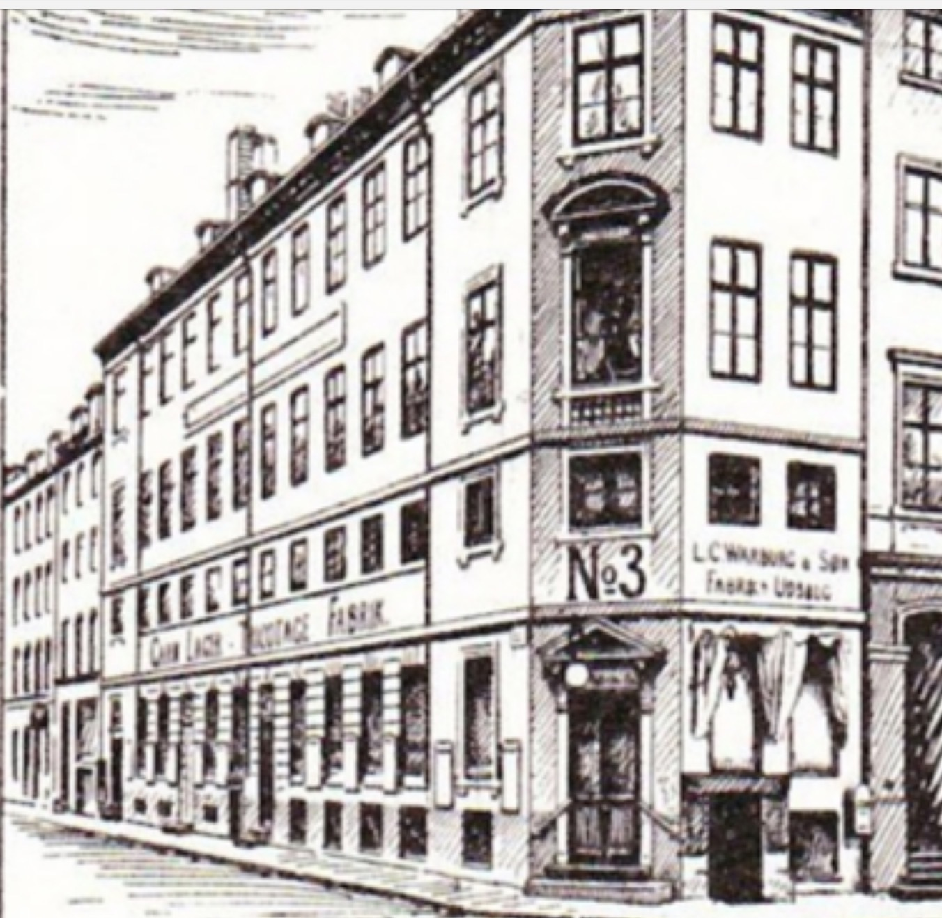 The Warburg House at Højbro Plads 3 in Copenhagen, Denmark